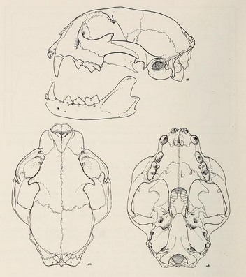 Sketch of Canadian lynx skull.